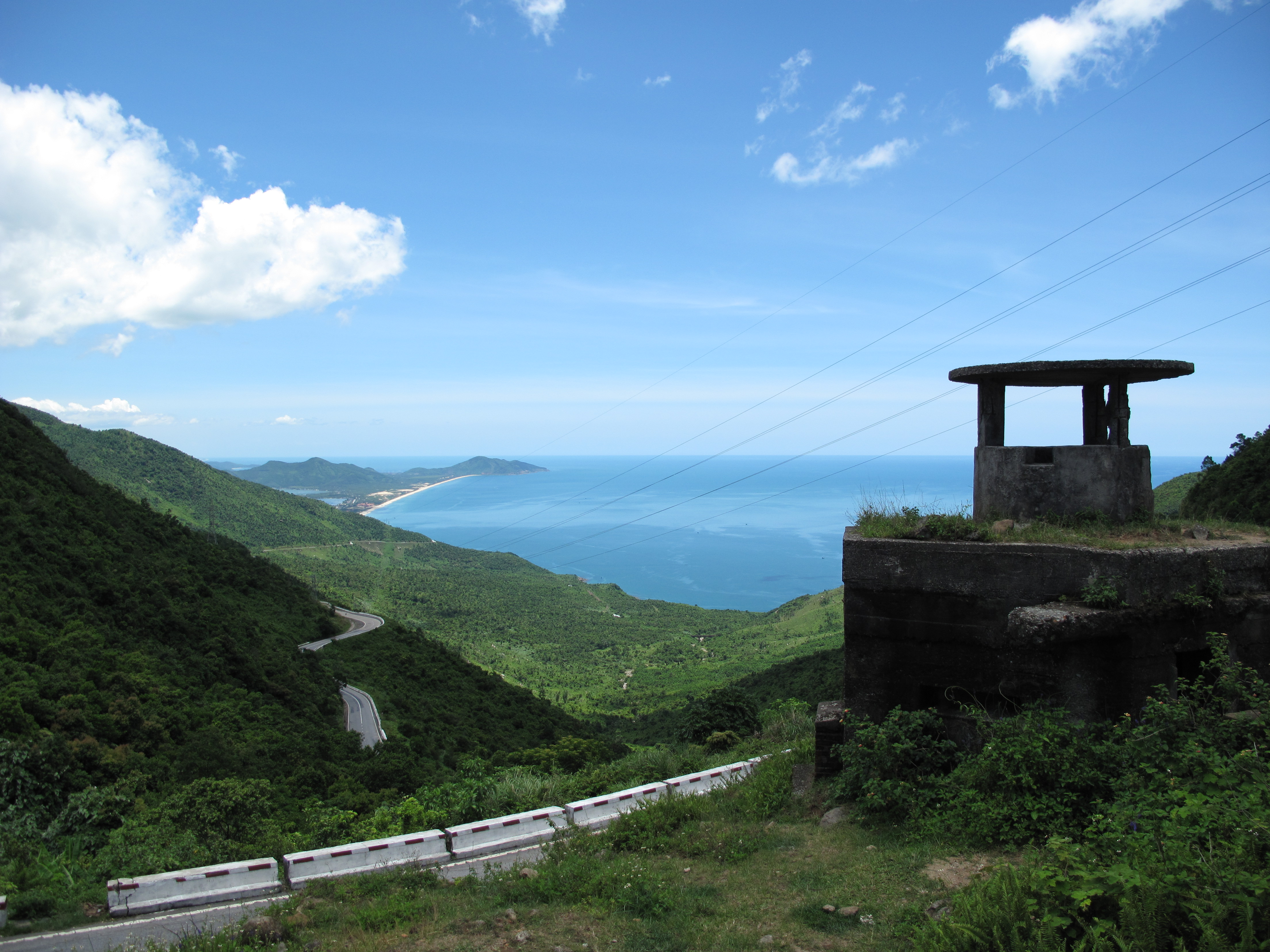 View of the South China Sea from the Hai Van Pass.